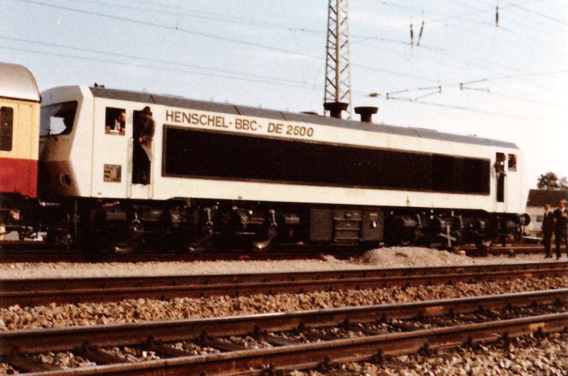 Henschel-BBC DE2500 diesel-electric locomotive.